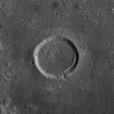 Hohmann crater, on the far side of the moon. Mosaic of LRO WAC images.